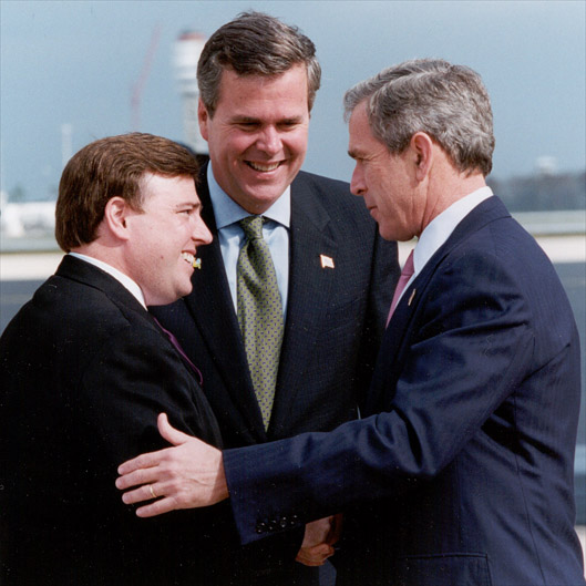 Congressman Keller joins Florida Governor Jeb Bush in welcoming President Bush to Central Florida.